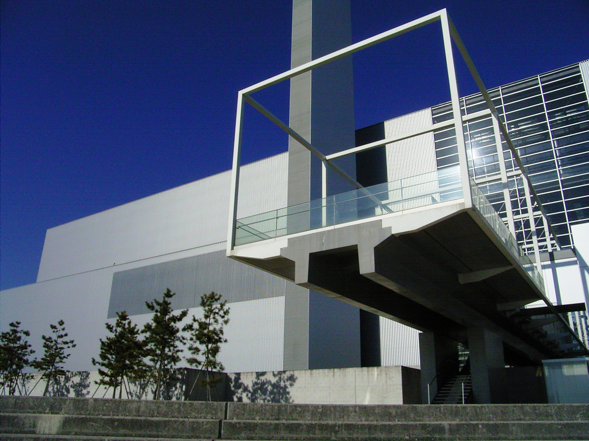 Naka Waste Incineration Plant(広島市環境局中工場),Hiroshima